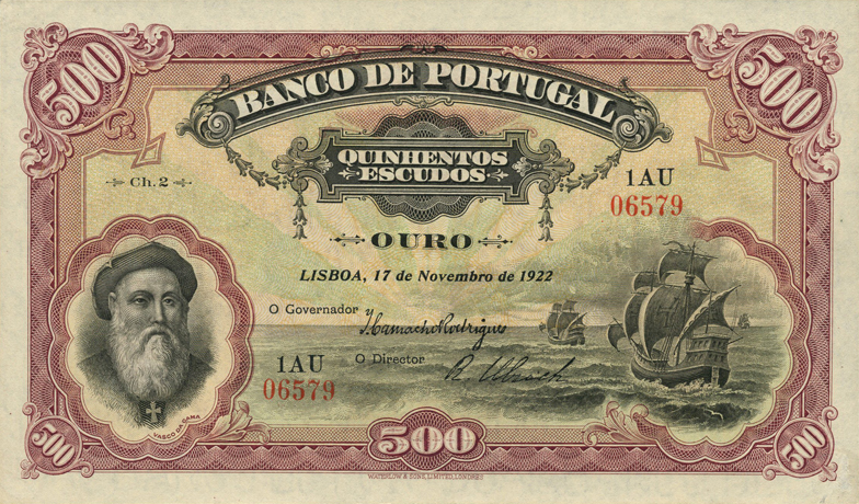 Portuguese 500 escudos banknote, 1922. One of the banknotes fraudulently issued by Alves dos Reis in 1925.